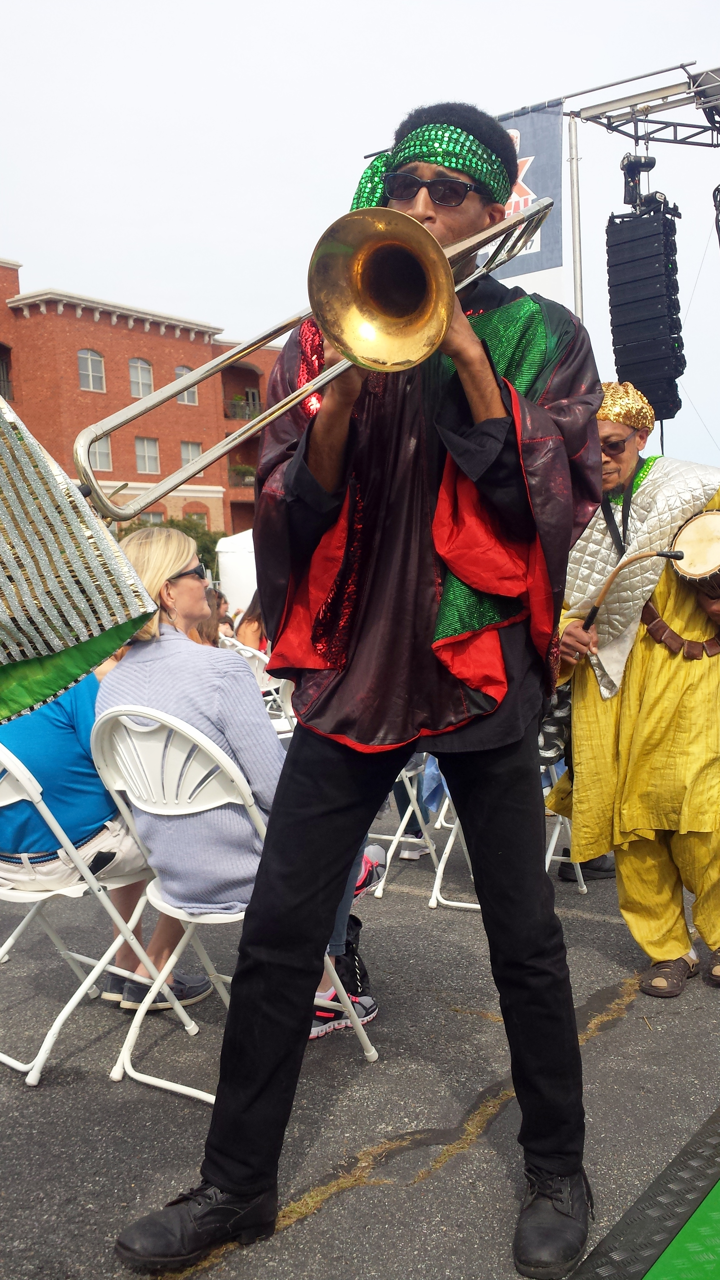 Dave Davis with Sun Ra Arkestra National Folk Festival Greensboro NC 154732